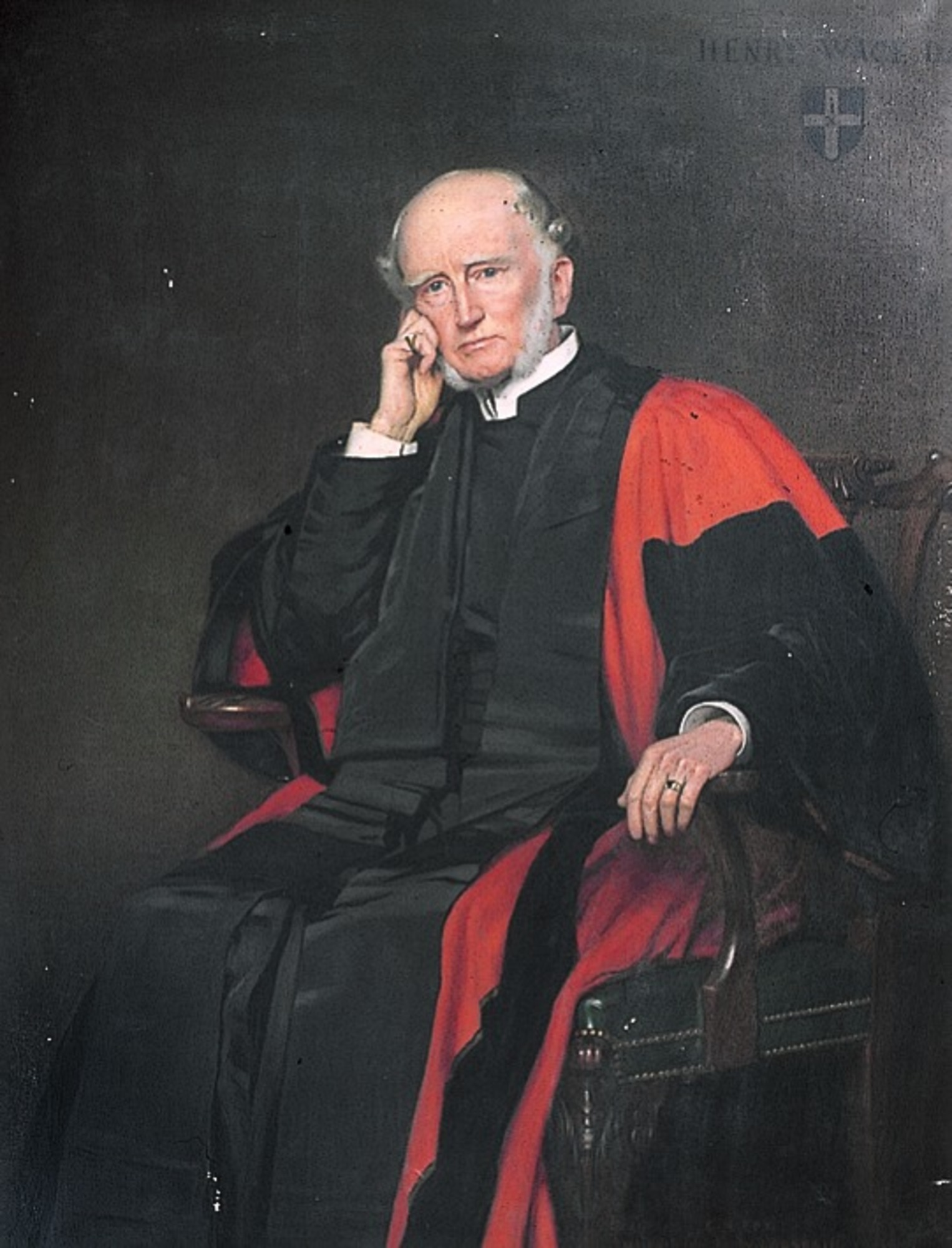 The Very Reverend Henry Wace (10 December 1836 – 9 January 1924). Painted c. 1919